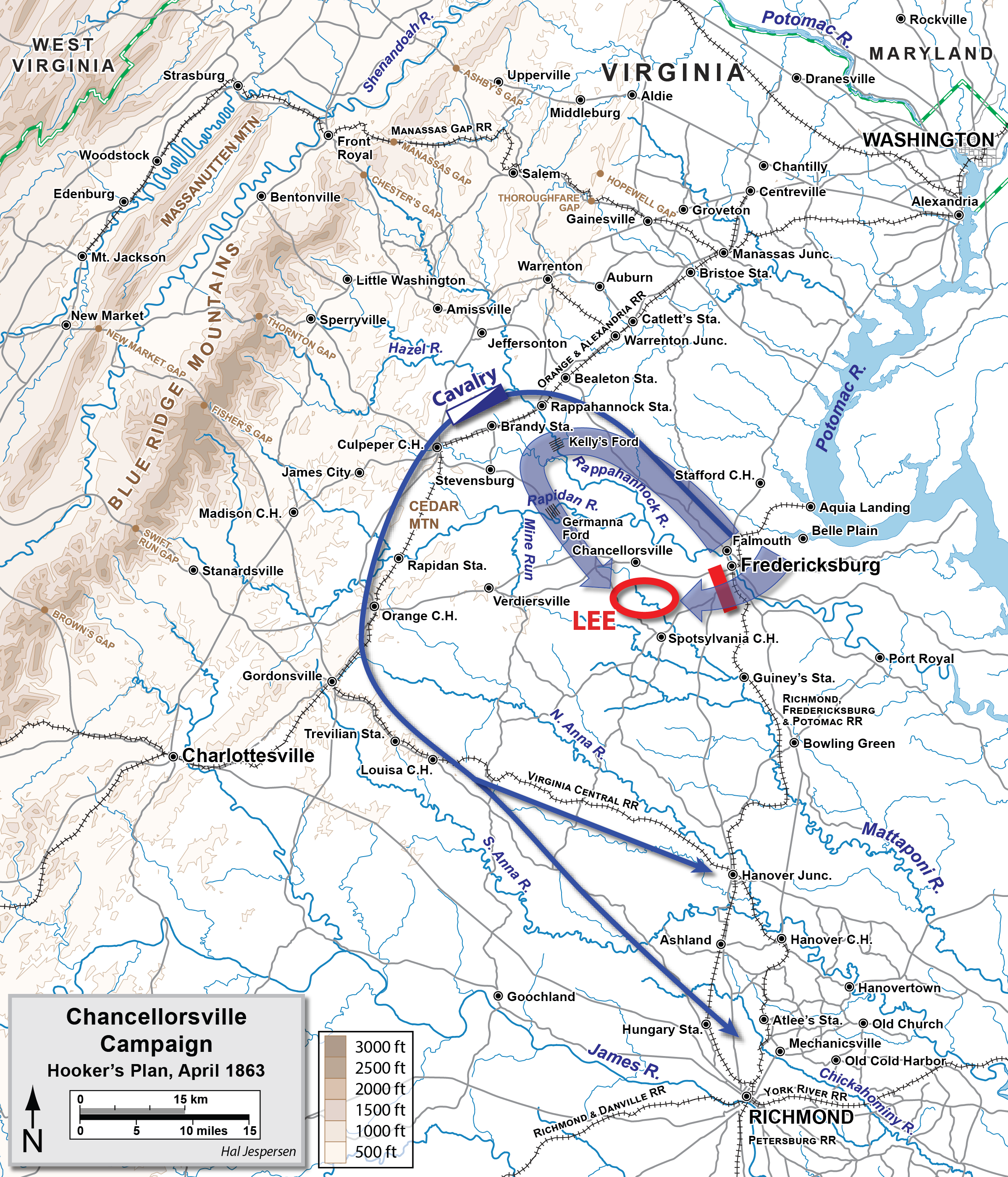 One of a series of maps of the Battle of Chancellorsville of the American Civil War. This one depicts the plan of Maj. Gen. Joseph Hooker prior to the campaign. Drawn in Adobe Illustrator CS5 by Hal Jespersen. Graphic source file is available at Attribution: Map by Hal Jespersen